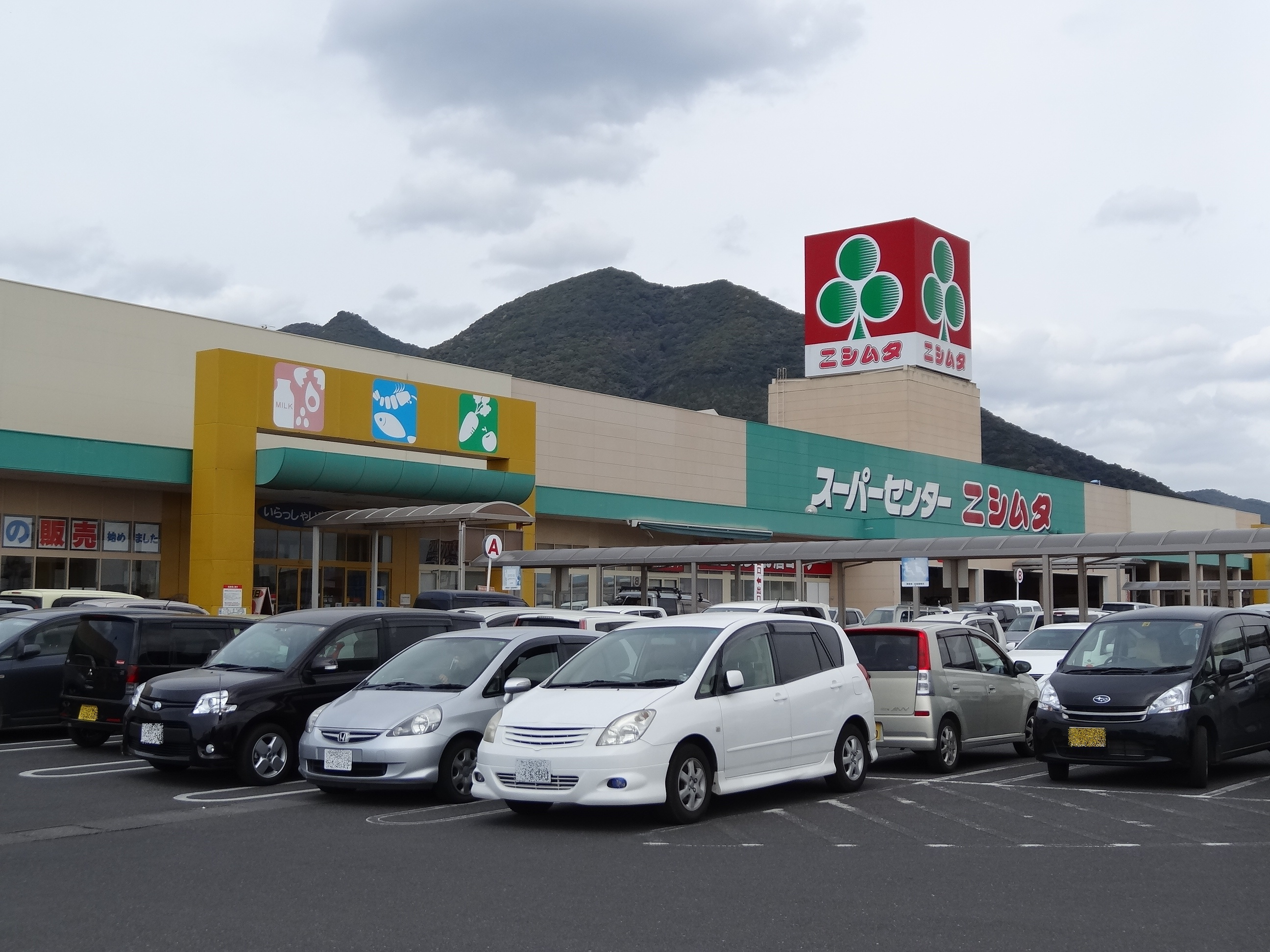 Nishimuta Kanoya Store (Kanoya City, Kagoshima, Japan)